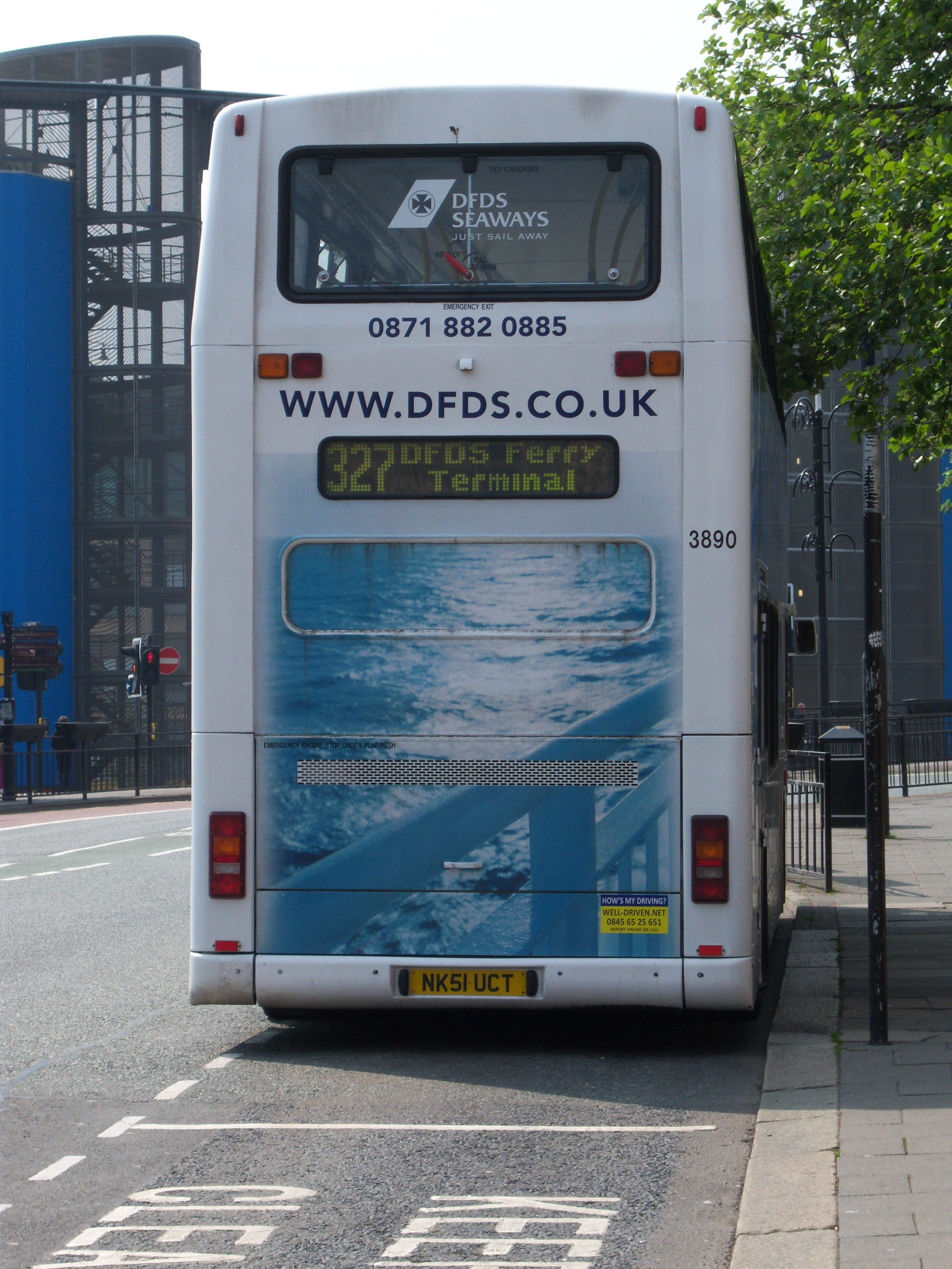 Go North East 3890 (NK51 UCT), a Dennis Trident/Plaxton President, outside Newcastle Central Station, on the shuttle service to the DFDS ferry terminal. See Go North East DFDS Ferry buses.